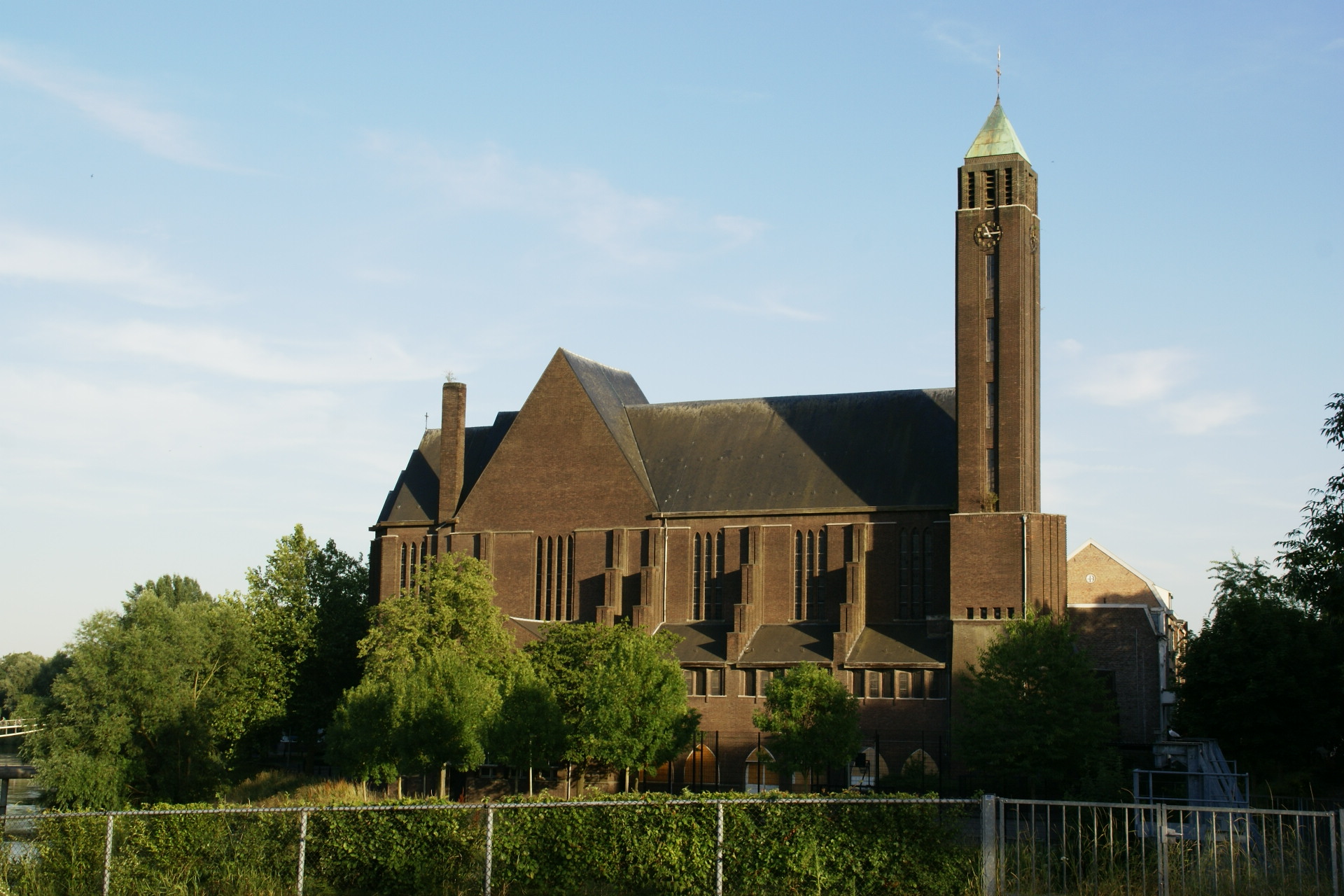 Church at Bosscherweg in Maastricht, Netherlands